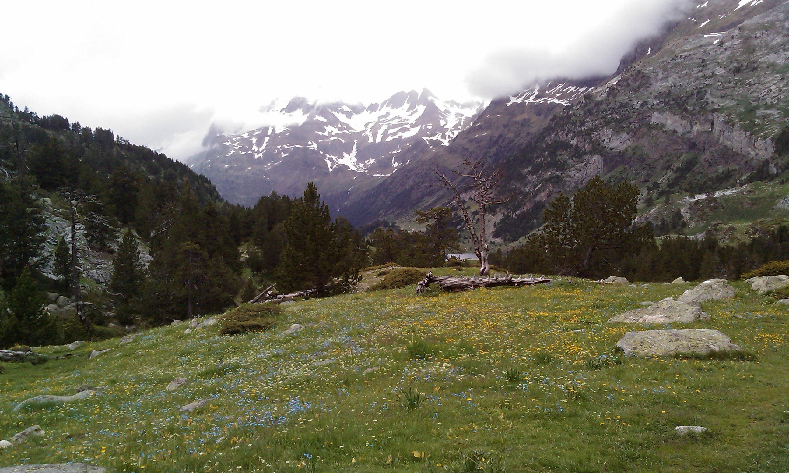 Pyrenees picture